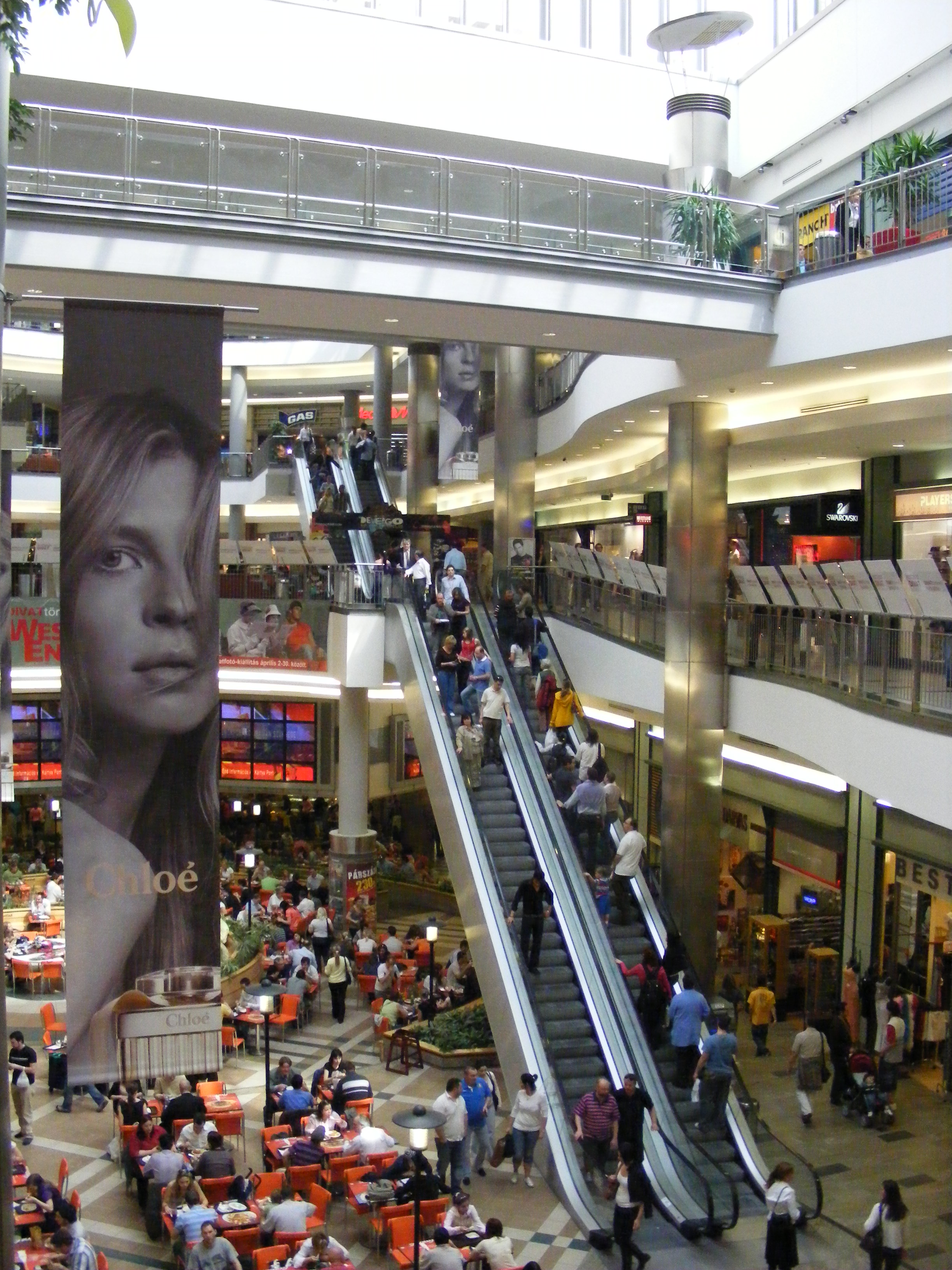 WestEnd Shopping Mall in Budapest